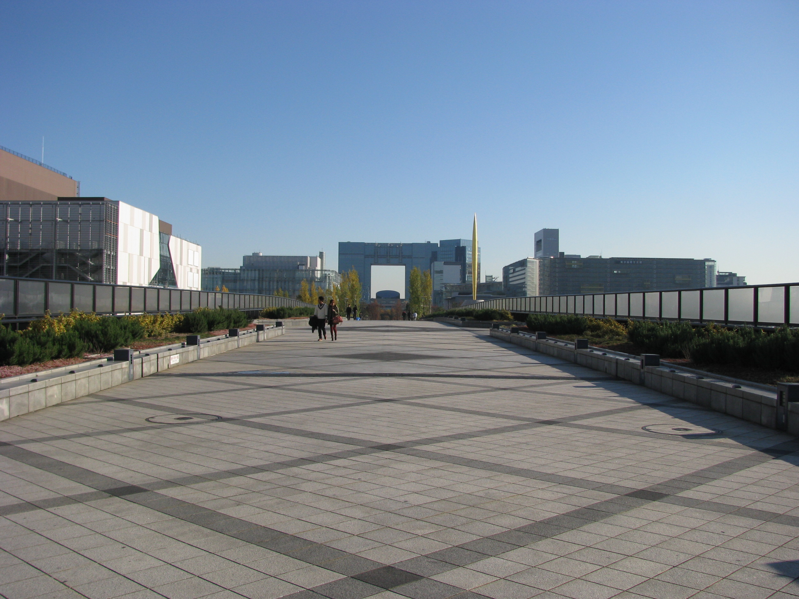 This location is Aomi in Kōtō, Tokyo, Japan.